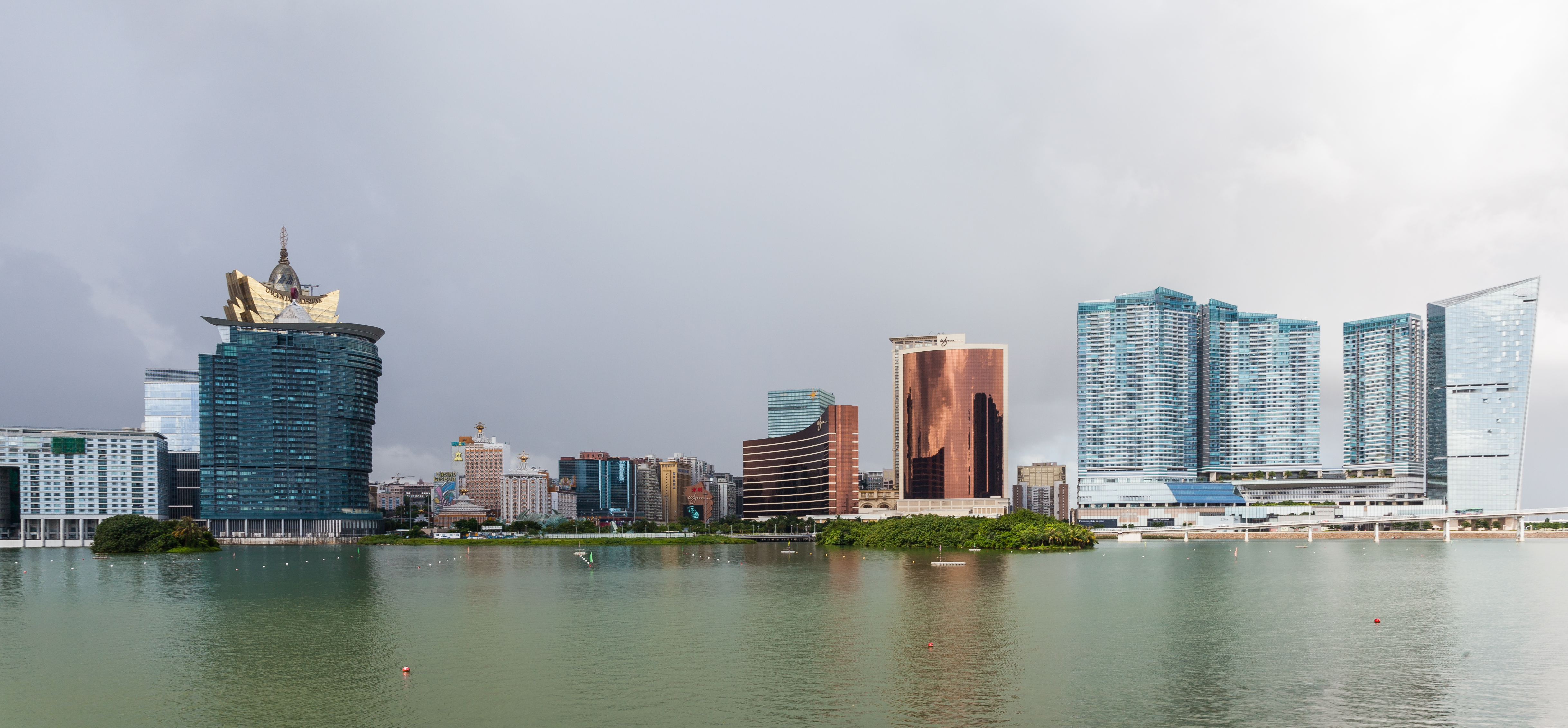 Nam Van Lake, Macau